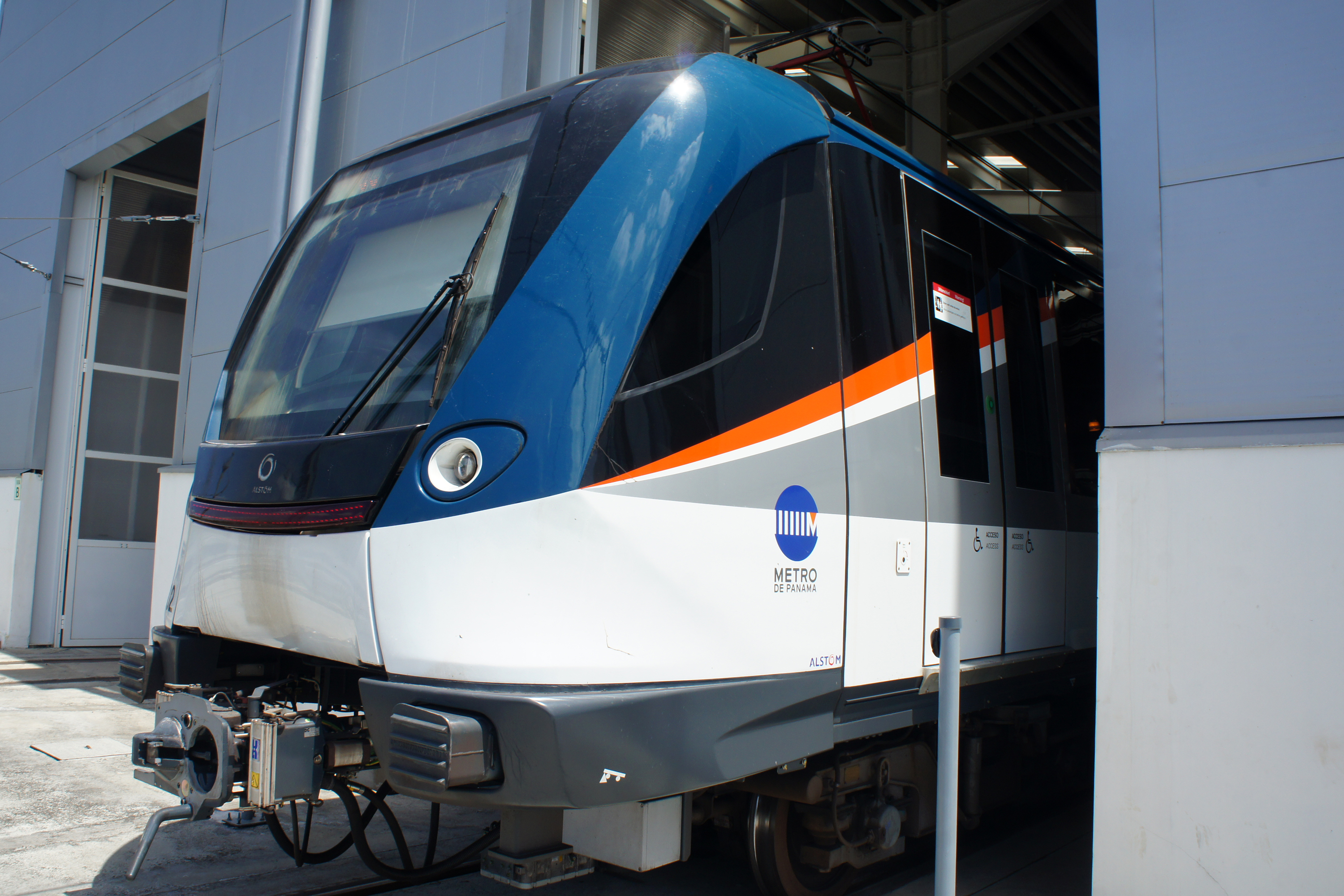 Alstom Metropolis 9000 from Panama Metro at the maintenance shop